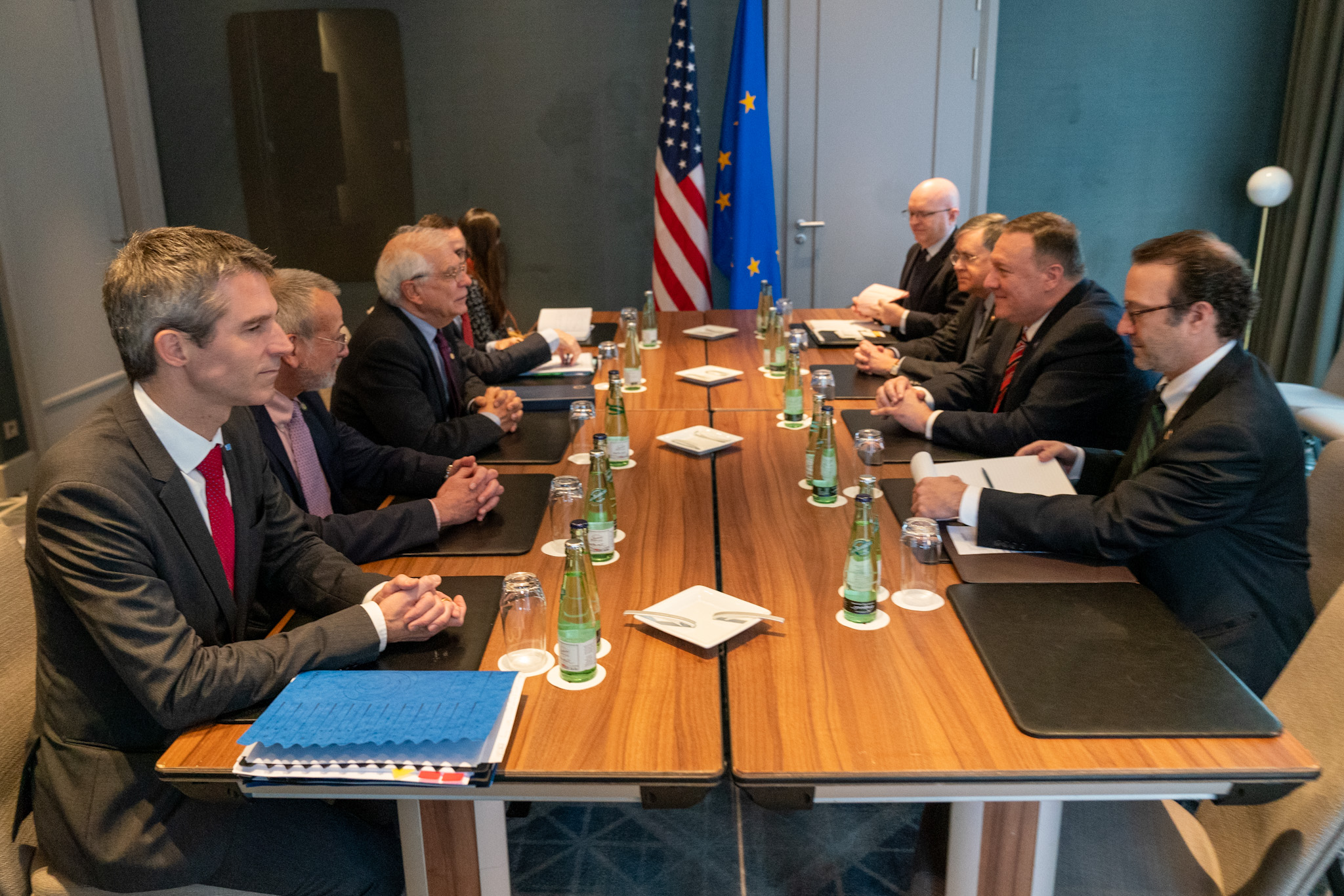 Secretary of State Michael R. Pompeo met with High Representative of the EU for Foreign Affairs and Security Policy/Vice-President of EU Commission Josep Borrell Fontelles in Berlin, Germany, on January 19, 2020. [State Department Photo by Ron Przysucha/ Public Domain]